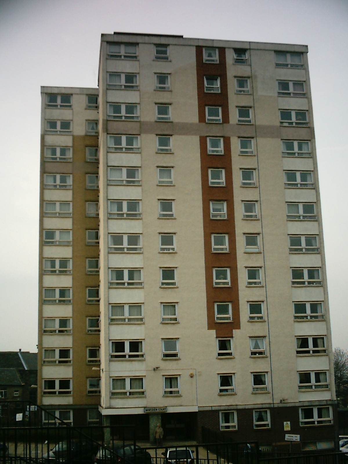 Marsden Court flats in Farsley, Leeds, West Yorkshire, UK. Taken on the 14th April 2009.